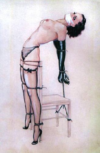 Painting of S/M sexuality